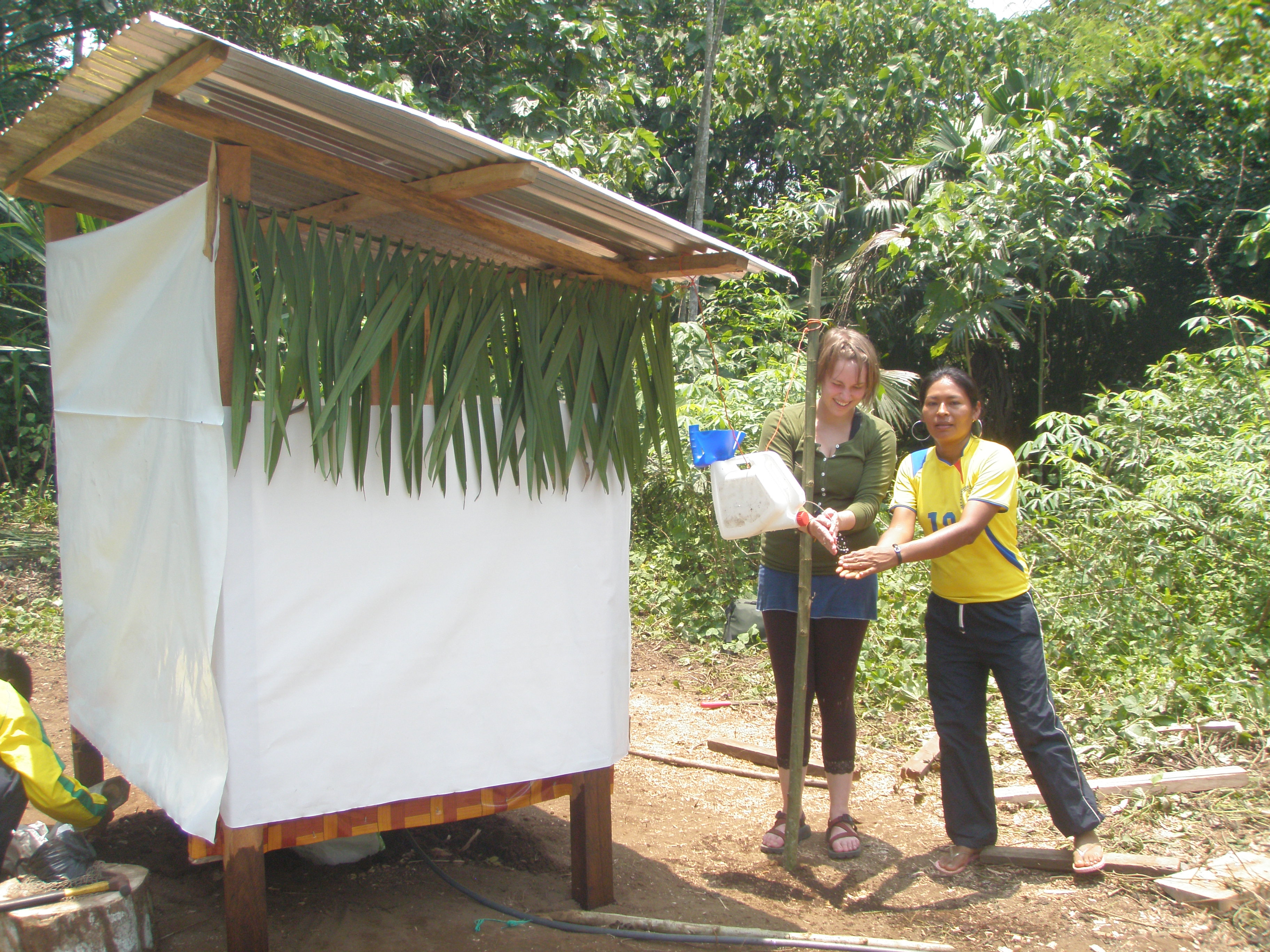 External view of the finished unit. The white plastic sheets that form the walls and door give privacy while allowing a great deal of light in. Robin Fink, of Pachamama, and Martha, the homeowner, are washing their hands at a rain-fed Tippy Tap. This is unit was working fine until Martha went to a different village to teach school. We may dig it up and carry it to the house of another interested member of the community. We recently visited it, a year after building, and it was fully intact. Vista externa. El plástico blanco forma las paredes y la puerta, sin quitar la luz. Robin Fink, de Pachamama, y Martha, la dueña de casa, están lavándose las manos en un Tippy Tap que se llena con la lluvia. Estaba funcionando muy bien hasta que Martha se fue a dar clases en otra comunidad. Es posible que vamos a desenterrarlo y cargarlo hasta la casa de otro miembro de la comunidad. Lo visitamos recientemente, luego de un año de la construcción, y todo estaba intacto.